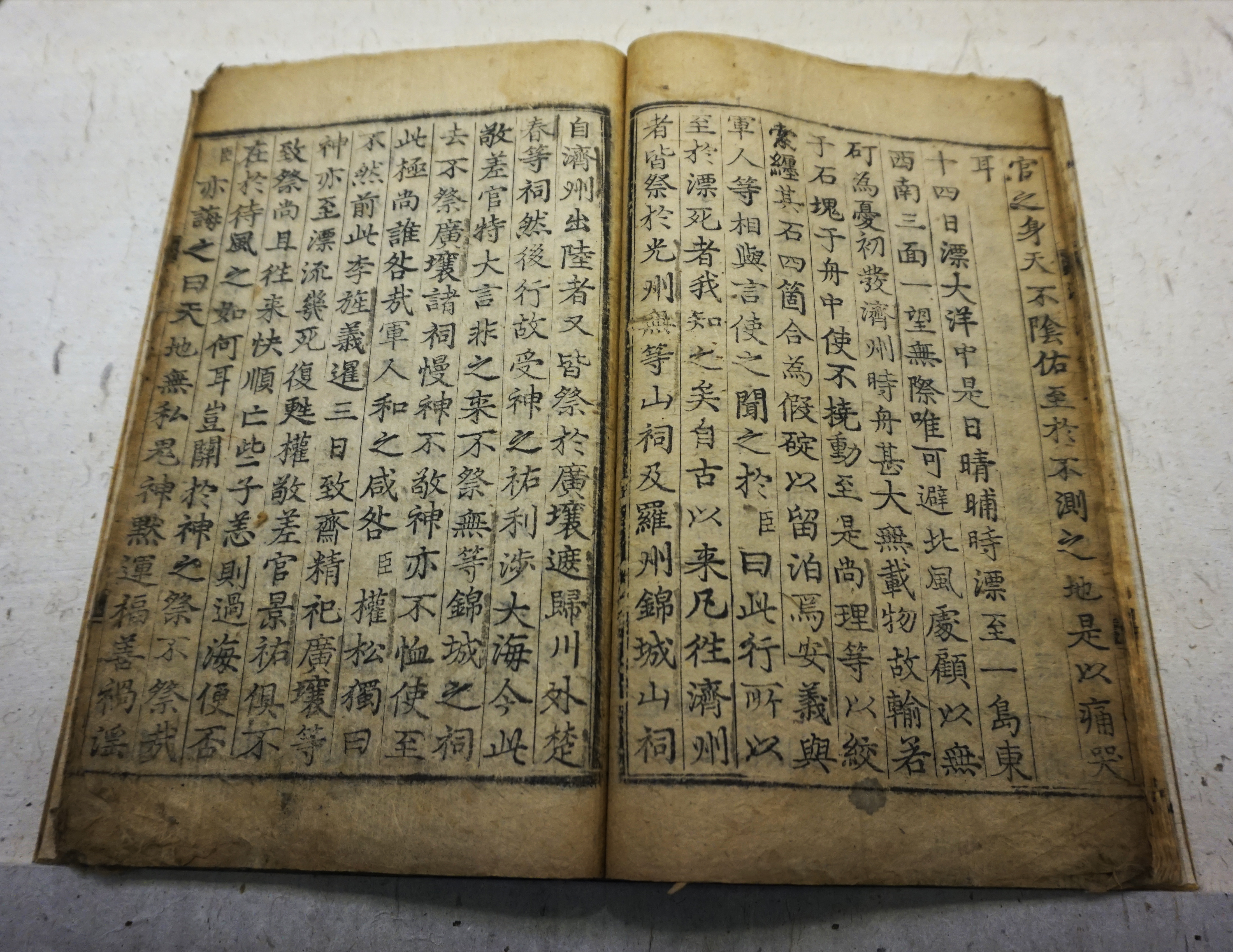 A Record of Drifting Across the Southern Brocade Sea written by Choe Bu.